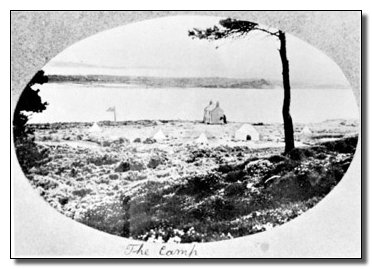 First Scout encampment, Brownsea Island, Dorset, England, August 1907